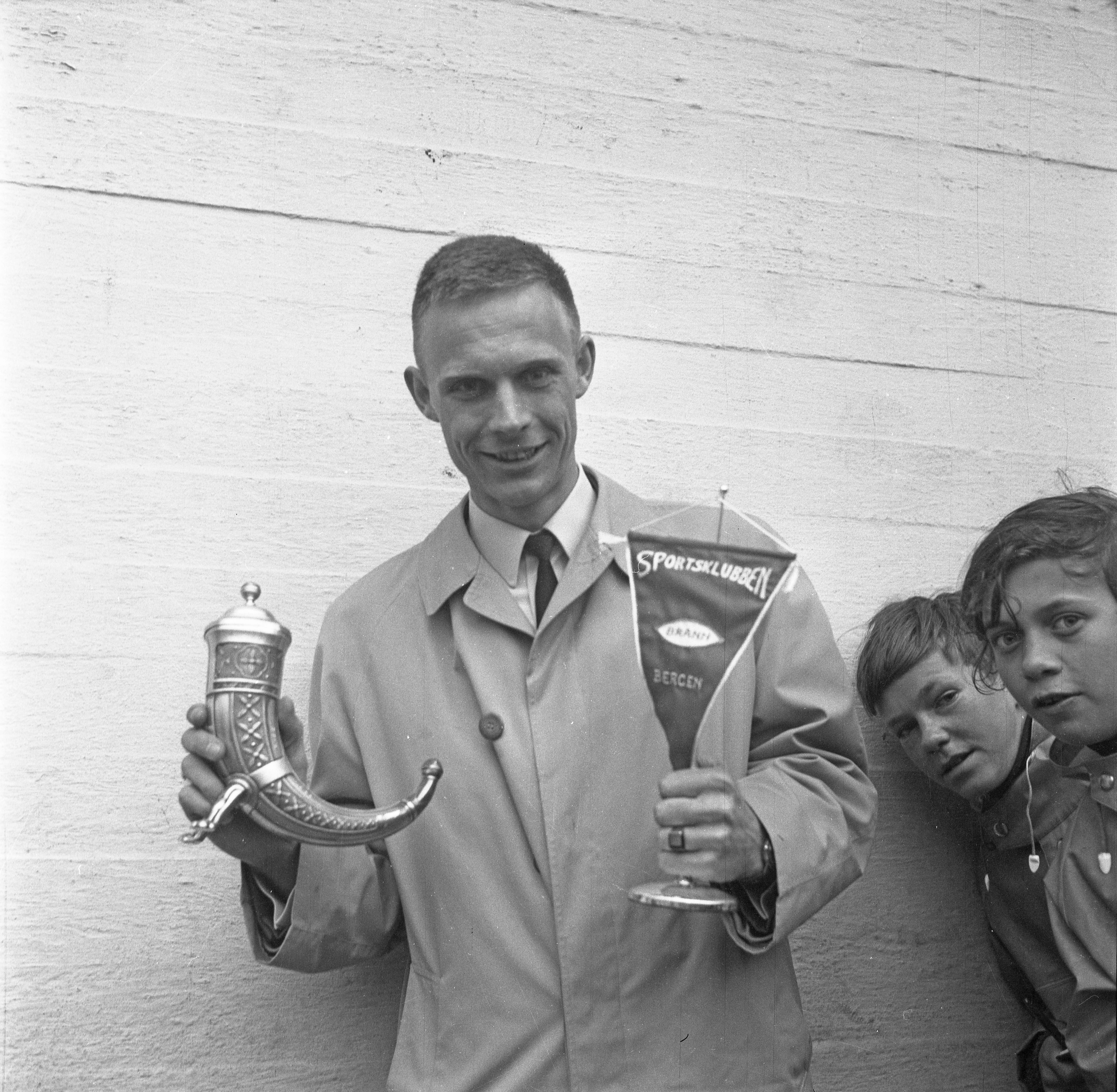 Former football player Rolf Birger Pedersen in 1969.